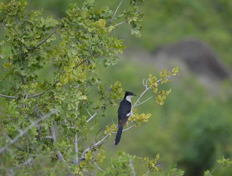 Pied Cuckoo in Pune, Maharashtra